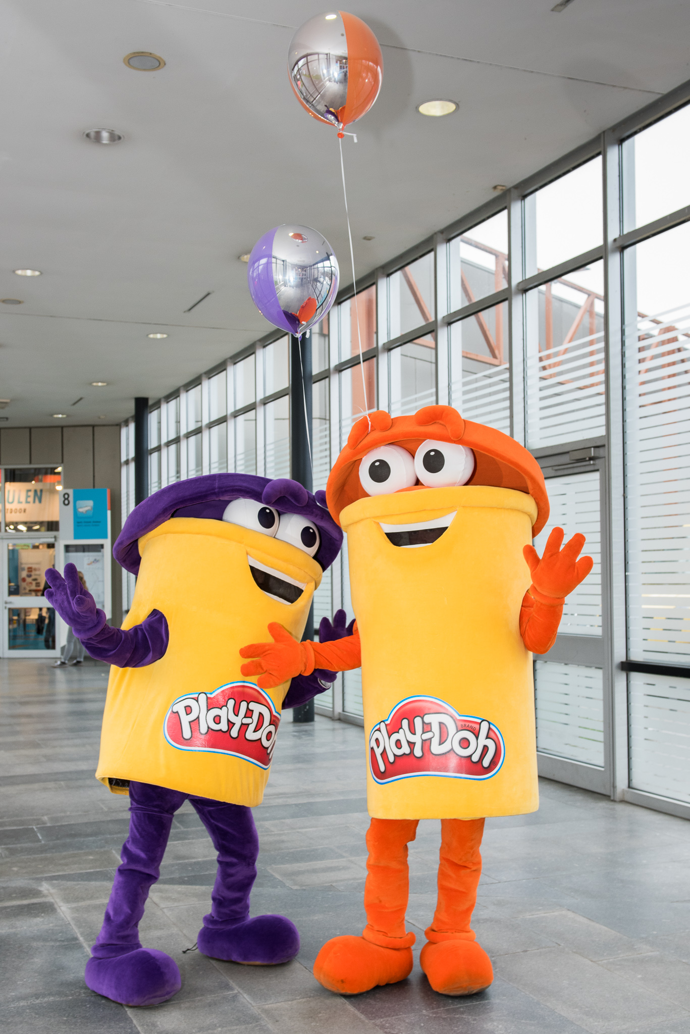 Doh-Dohs,International Toy Fair Nürnberg,Ma,Mascots,Maskottchen,Play-Doh cans,Spielwarenmesse Nürnberg